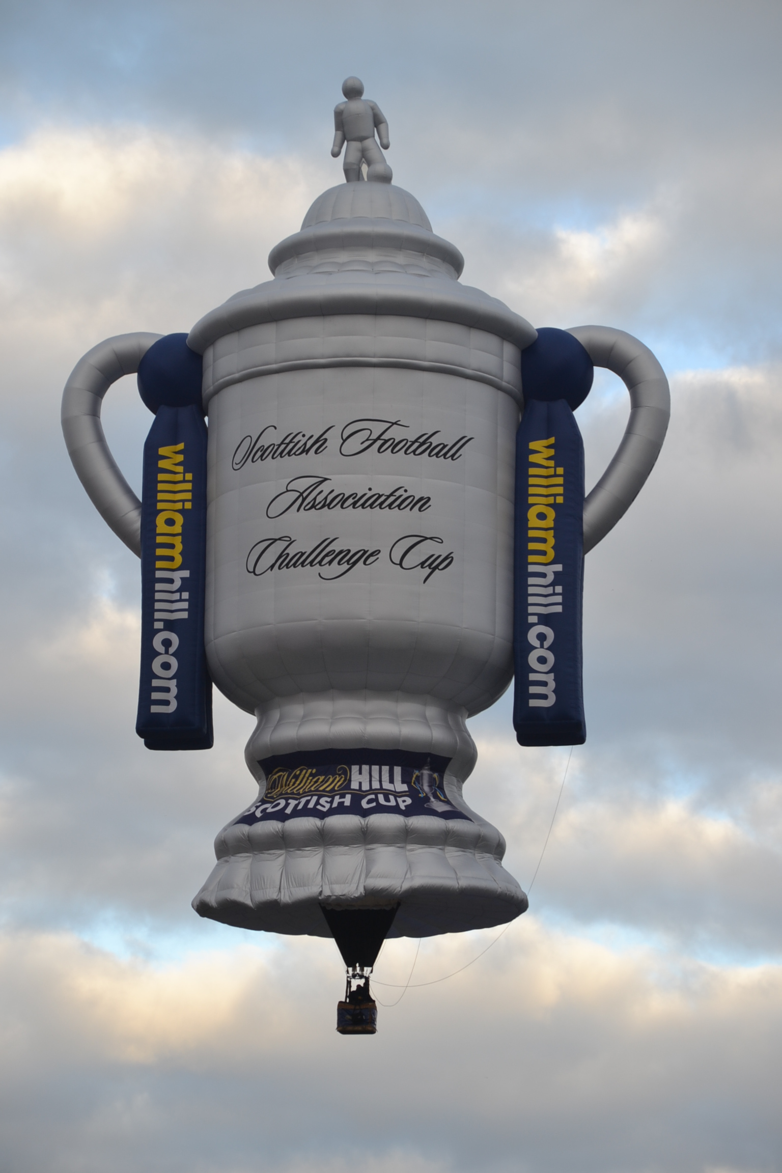 Special shape Scottish Football Association Challenge Cup,Kubick Balloon at Ashton Court, Bristol,10/08/13.